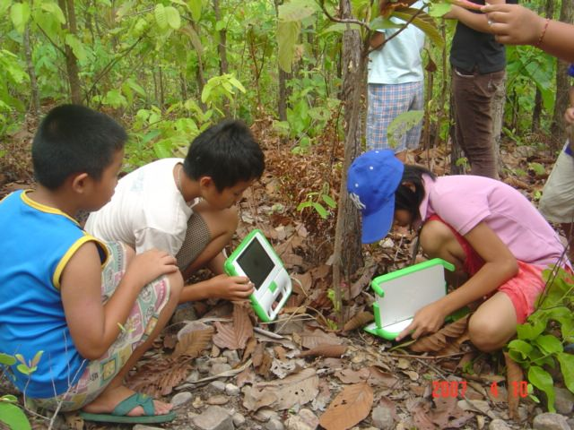 OLPC Thailand - XO computer used for taking photos on a hike